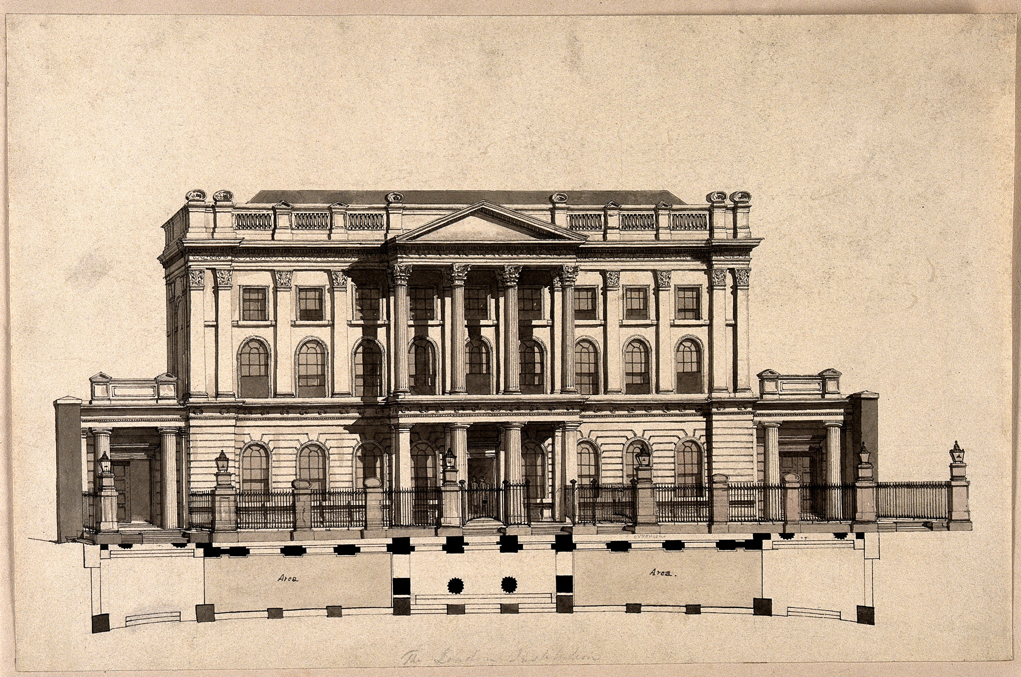 The London Institution, Moorfields, London: the facade and a part plan of the area and railings. Drawing attributed to R. B. Schnebbelie, n.d. [1819]. Iconographic Collections Keywords: Robert Blemmel Schnebbelie; London Institution; William Brooks